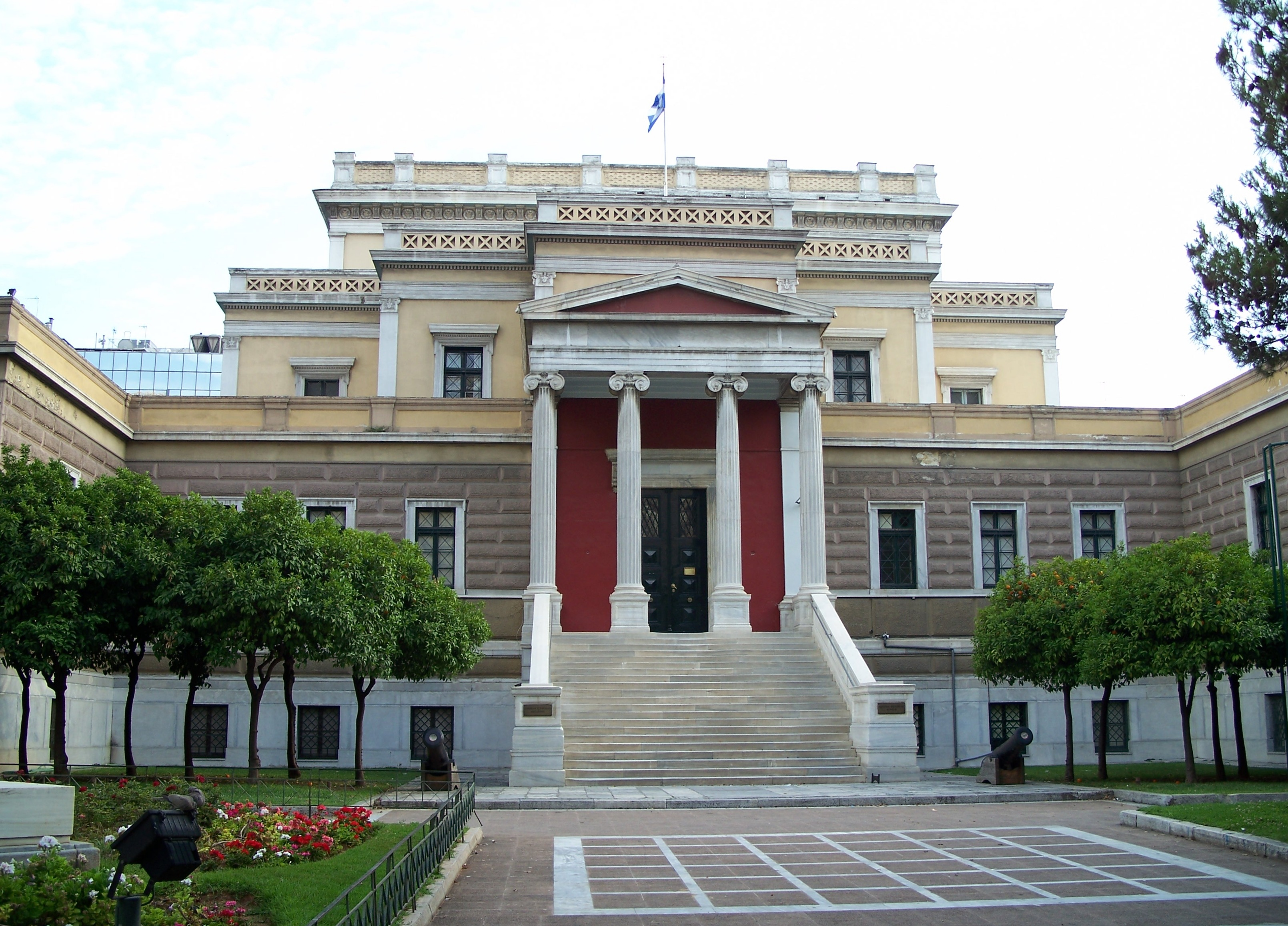 The building that used to house the Greek Parliament (Παλιά Βουλή), now a historical museum, Stadioy str. in Athens.